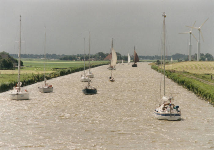 The Van Harinxmakanaal near Kiesterzijl